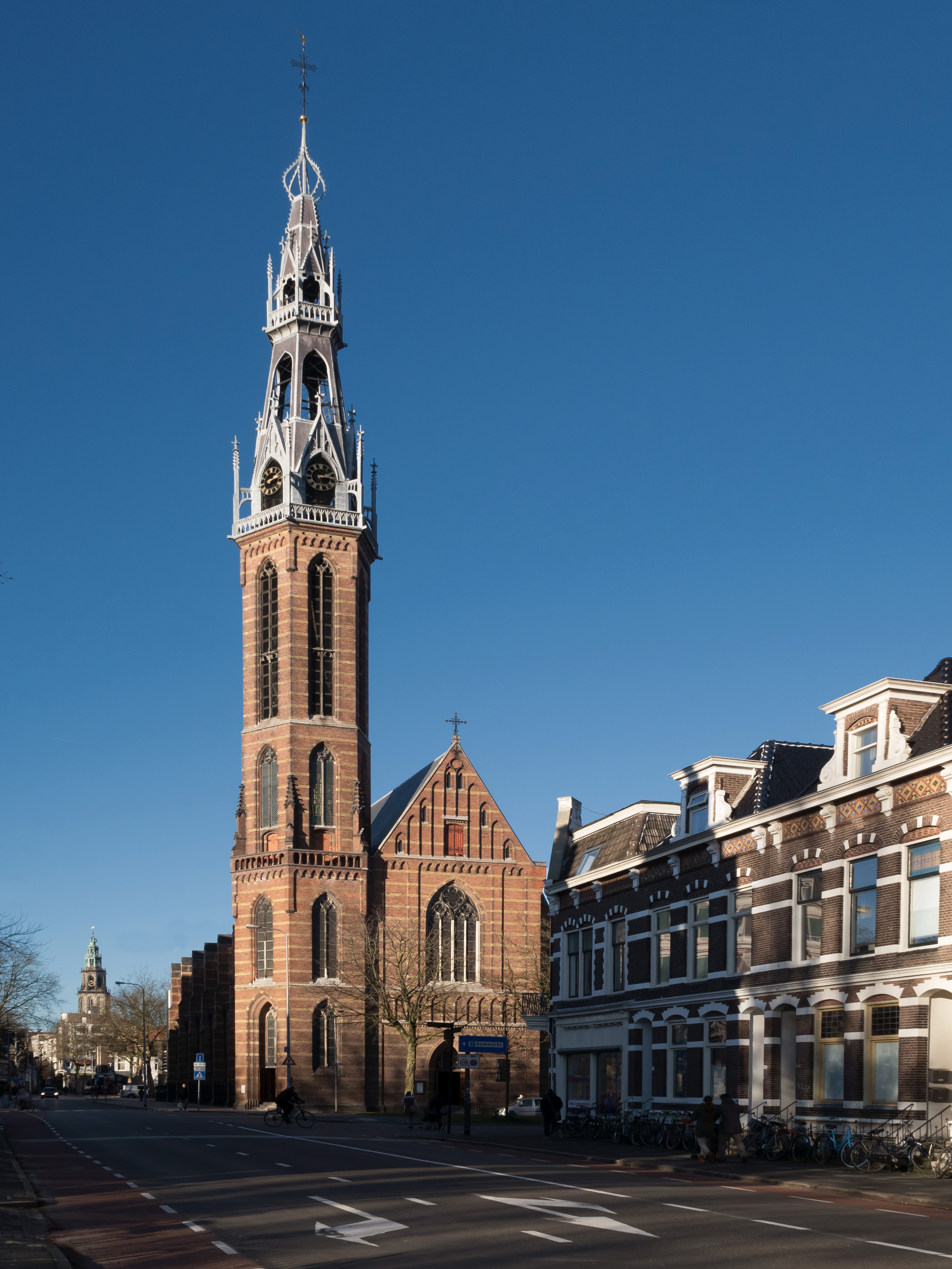 Groningen, church: de Sint-Jozefkathedraal